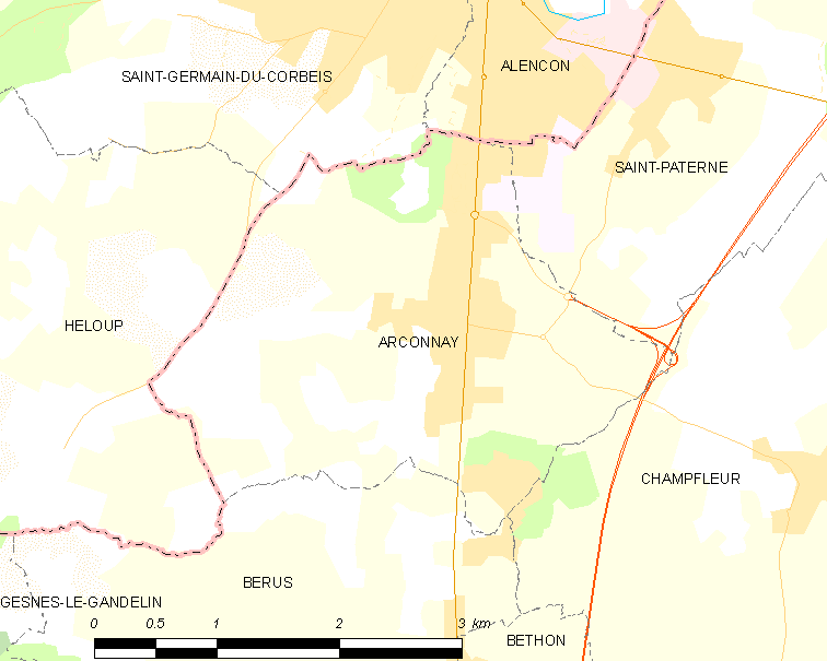 Map of French municipality